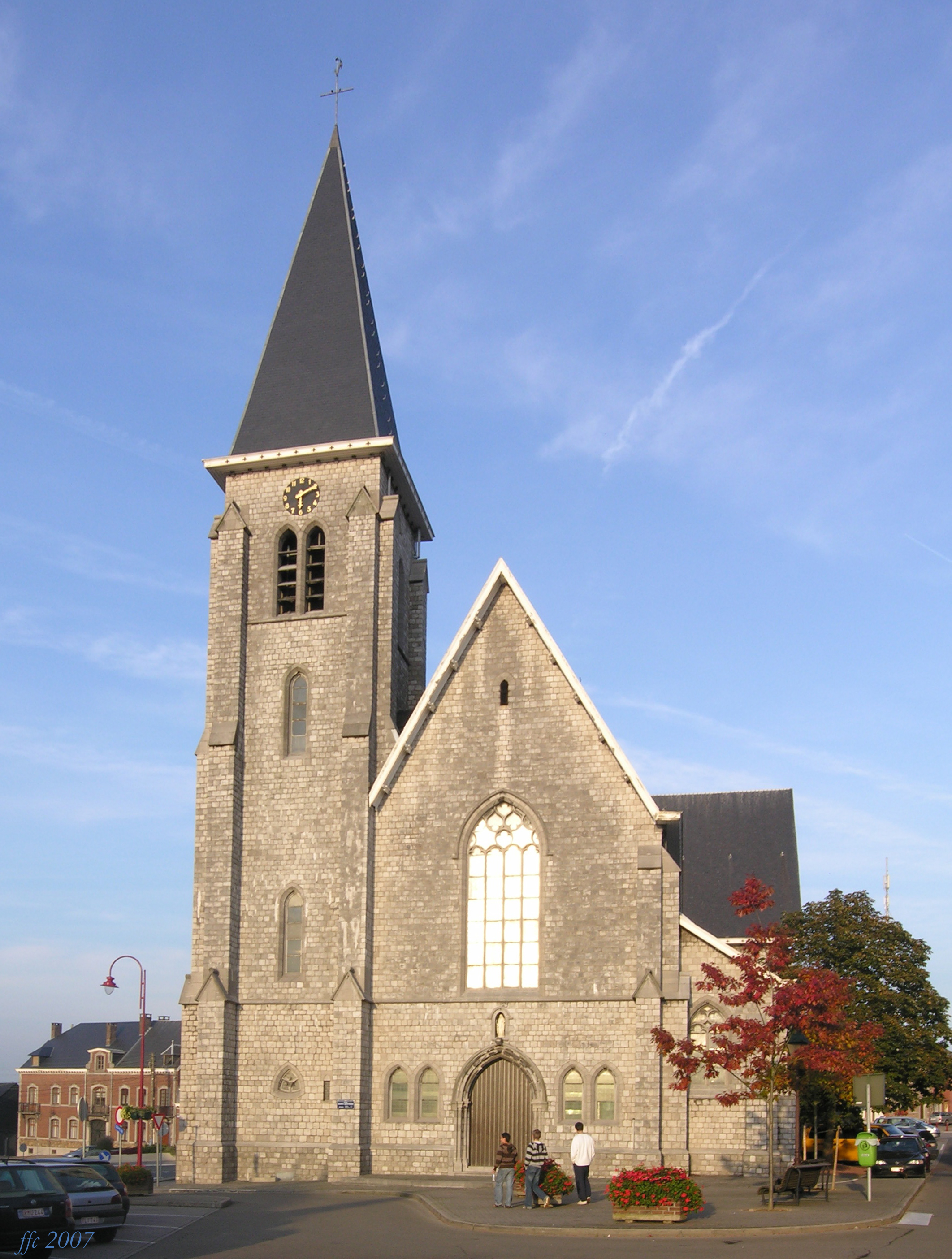 Blegny, Belgium: Gertrude's Church